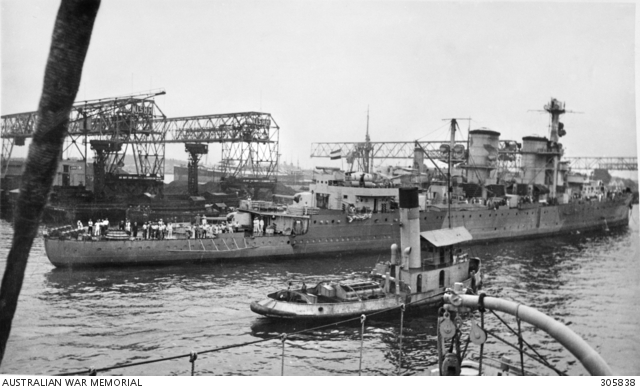 View of the Dutch cruiser Java going alongside to fuel at Tanjong Priok, Batavia, Netherlands East Indies, shortly before her loss in the Battle of the Java Sea. She wears a two tone grey splinter pattern common to Dutch warships during the defence of the Netherlands East Indies.